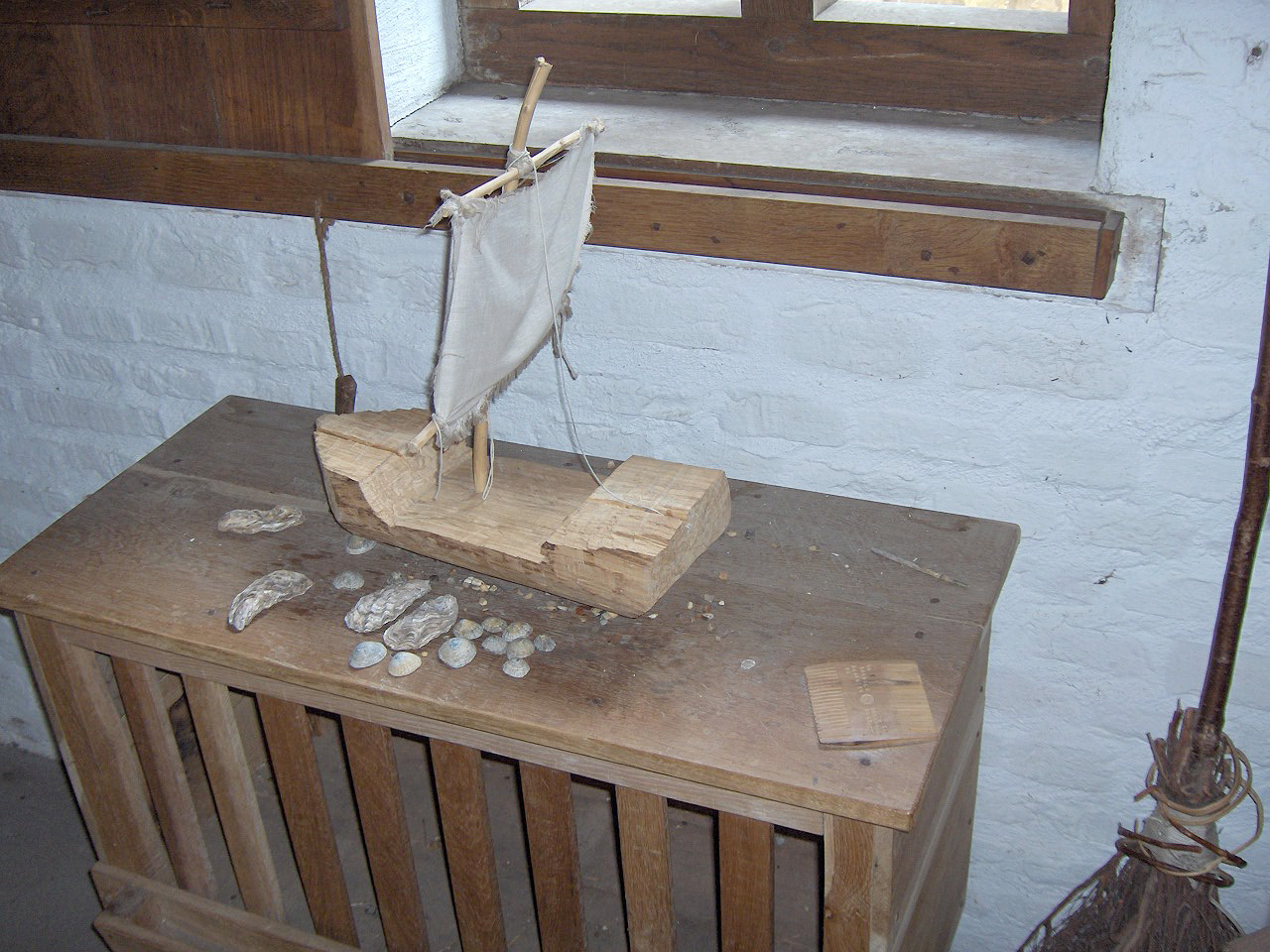 ship's model as toy for children; c. 1465 The oyster shells were perforated and each hung on a short rope. When the rope was pulled, the shell started rotating and made a whirring sound. At the archeological site of Walraversijde, near Oostende, Belgium